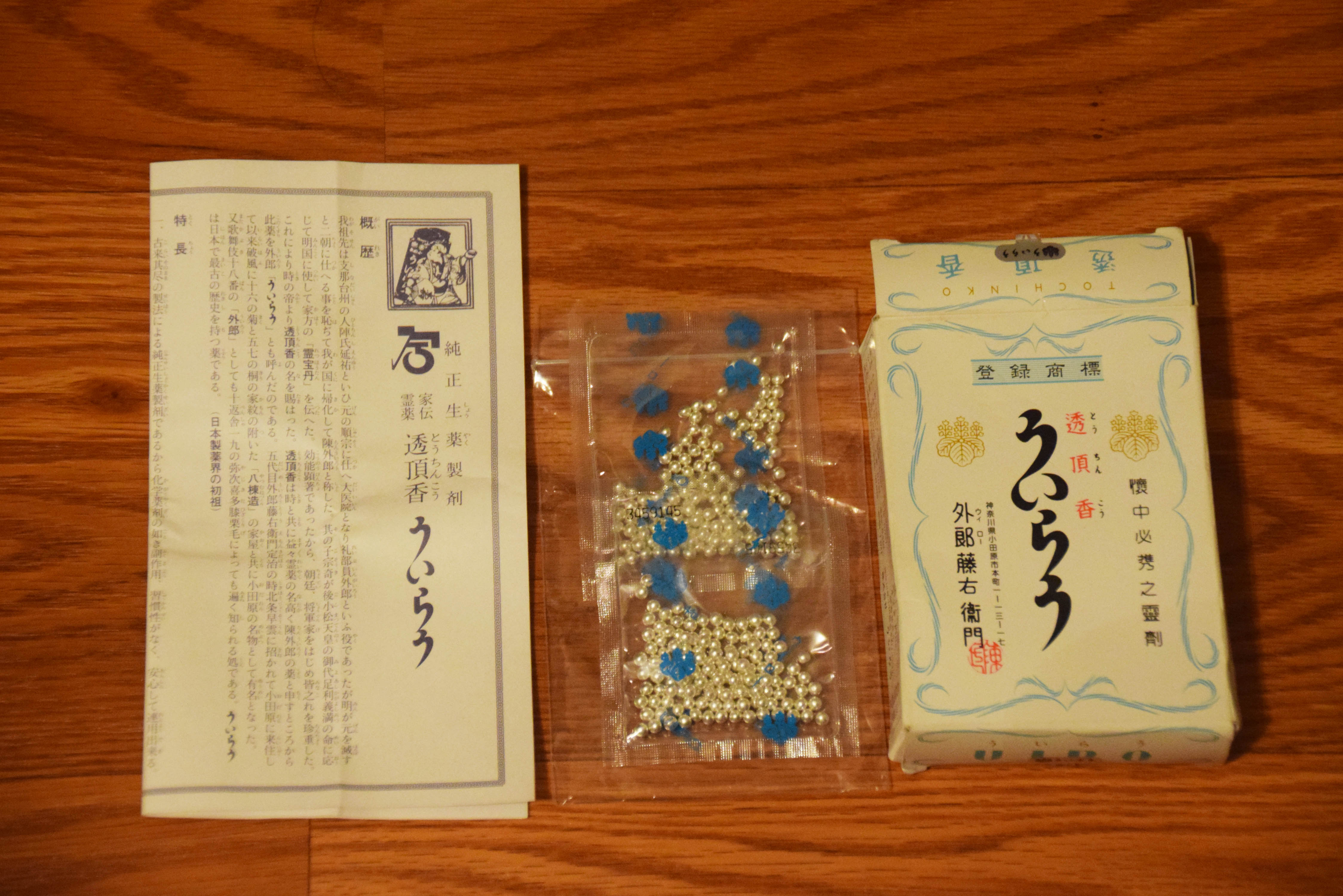 Uiro Medicine, Odawara, Japan